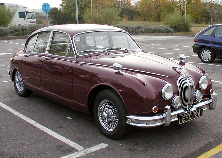 Jaguar 3.4 Mk2, registered 1963, at Aust Motorway Services, Bristol, England.